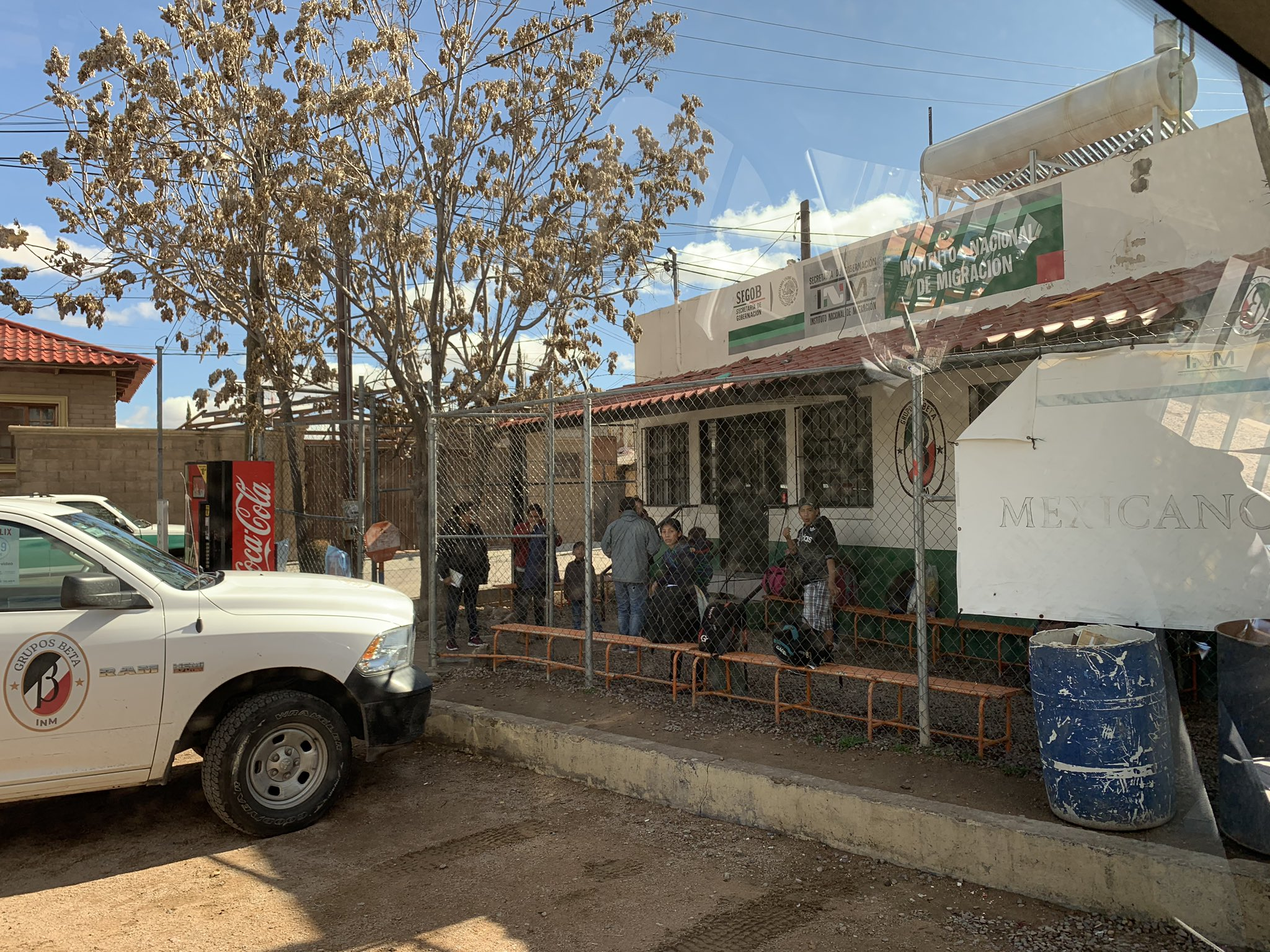 Instituto Nacional de Migración